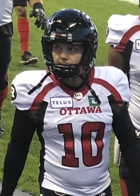 Lewis Ward, placekicker for the Ottawa Redblacks.